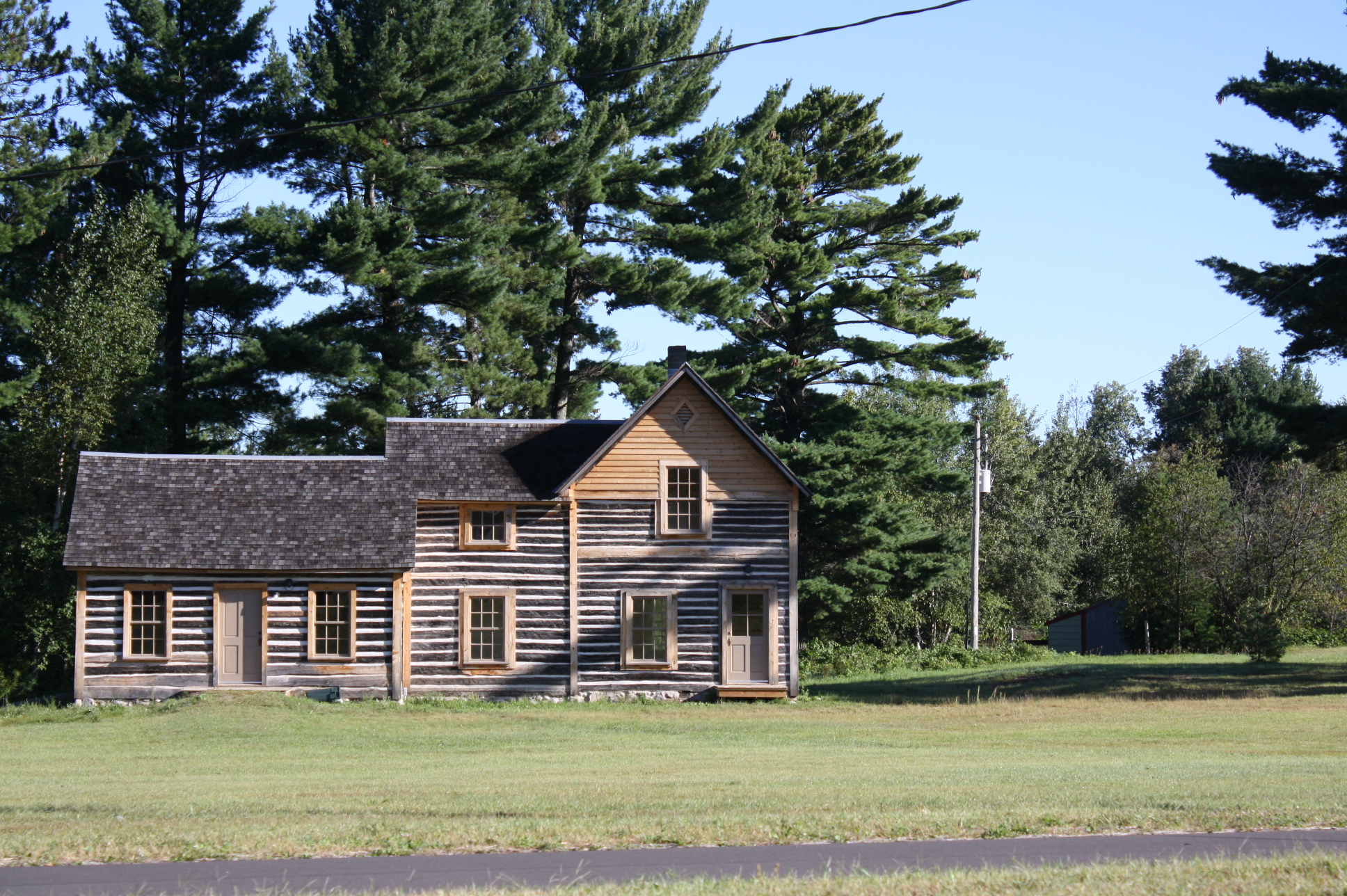 A historic cabin under restoration in Mole Lake, Wisconsin on Wisconsin Highway 55. It is listed on the National Register of Historic Places as the Dinesen-Motzfeldt-Hettinger Log House.